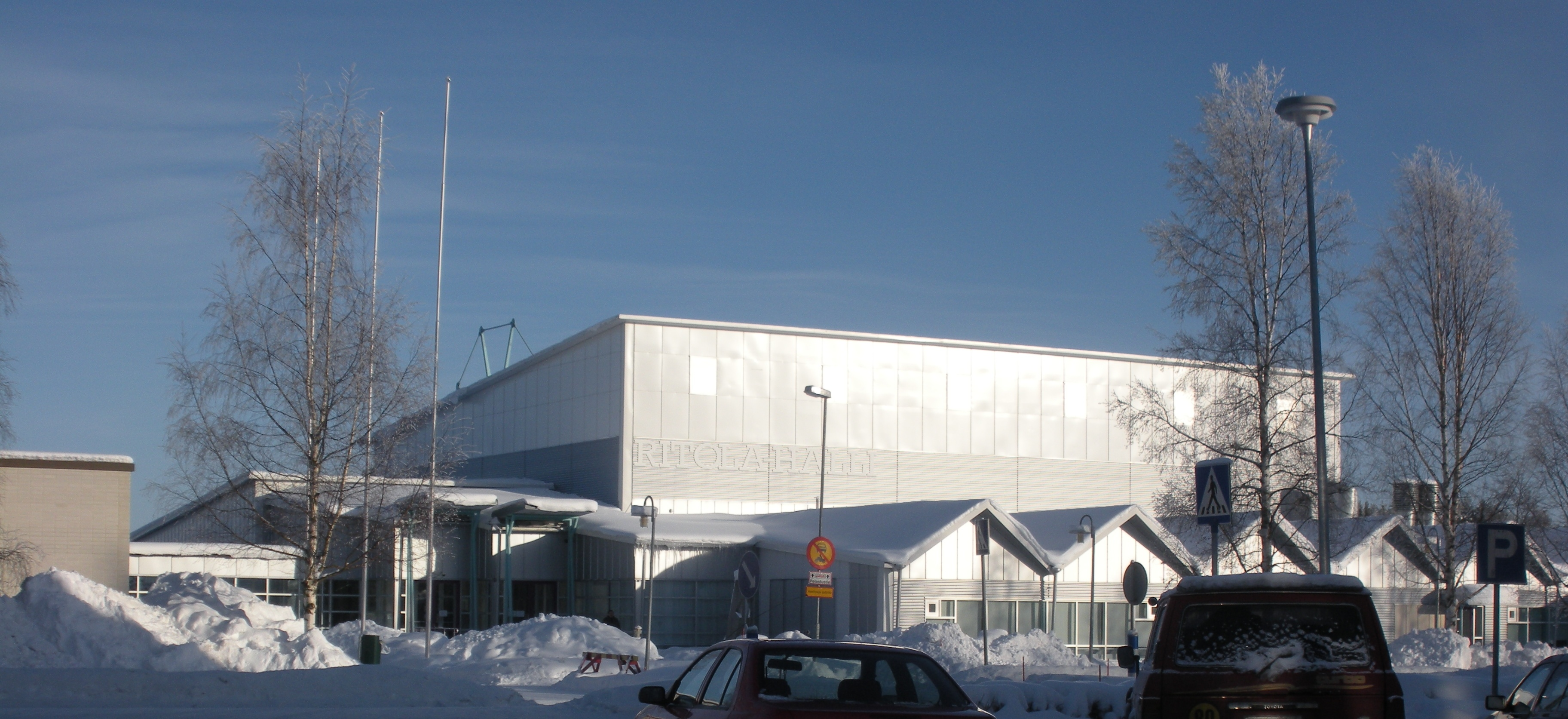 Ritola-halli, indoor-arena in Peräseinäjoki, Finland.